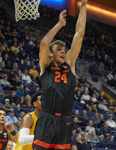 University of California Golden Bears hosted Oregon State University Beavers, Pac-12, Mens Basketball, Haas Pavilion, Berkeley, CA